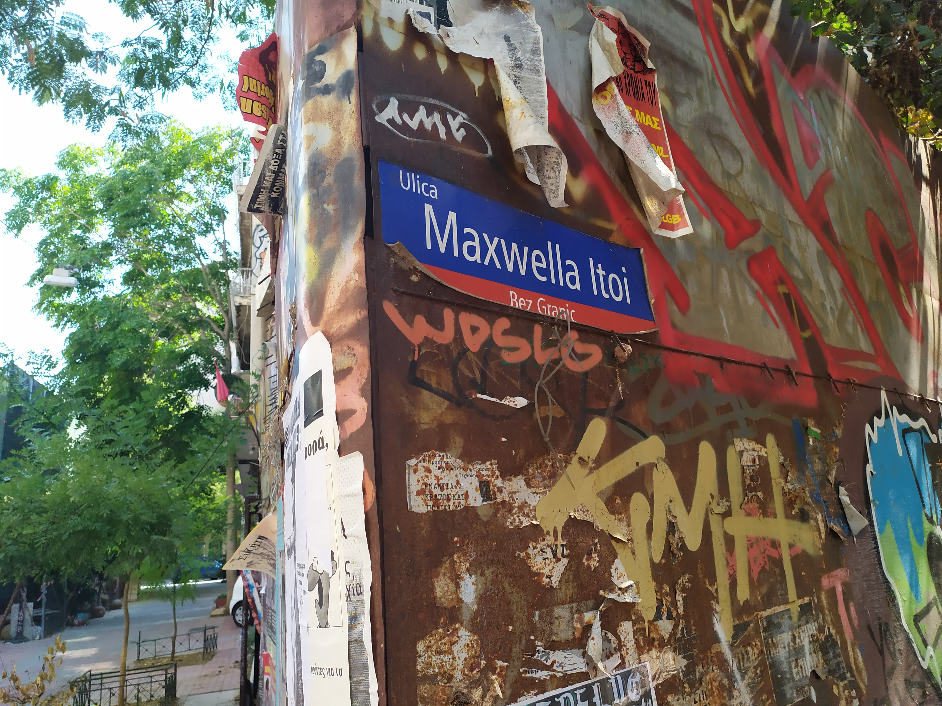 Maxwell Itoya in Exarcheia (2019)